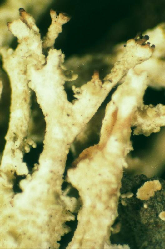 Cladonia squamosa Hoffm., 1796 (photograph of a herbarium specimen taken through a dissecting microscope (x37) showing small cups at the tips of podetia) Growing on soil between low bushes at Red Creek Campground in Dolly Sods Wilderness Area of the Monongahela National Forest, West Virginia, USA; collected and identified by Elmer G. Worthley (No. L-88, 22 Oct 1983); specimen is now in the Lichen Herbarium of the New York Botanical Garden.